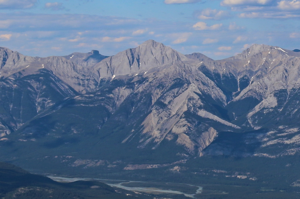 A view of the town of Jasper against the background of the Colin Mountain Range, as seen from the top of Whistler's Mountain in the Jasper National Park Mount Colin centered in Colin Range